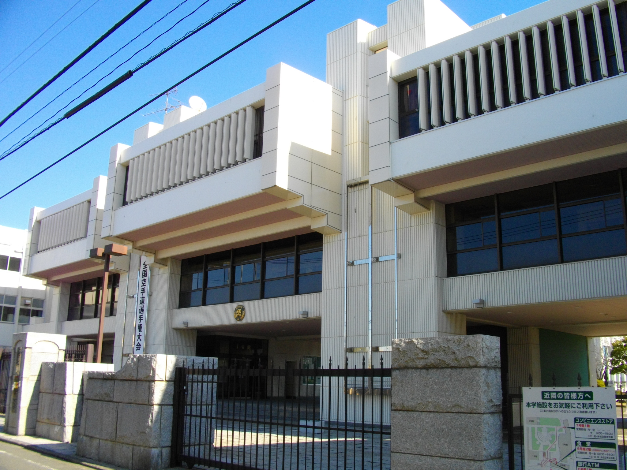 Yokohama College of Commerce